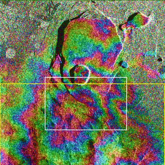 PIA01763: Space Radar Image of Kilauea, Hawaii - interferometry 1